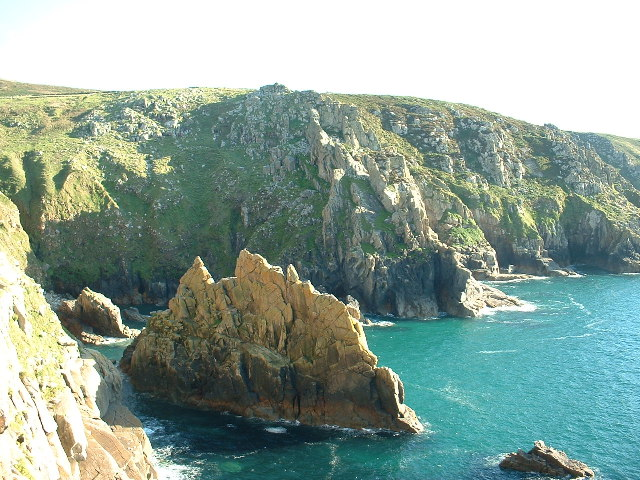 Porthmoina Cove. Known to climbers as Bosigran Cove. The island is Porthmoina Island [aka Bosigran Pinnacle] and the complex rib on the mainland is Bosigran Ridge [aka Commando Ridge], noted as a wartime training ground for commandos.